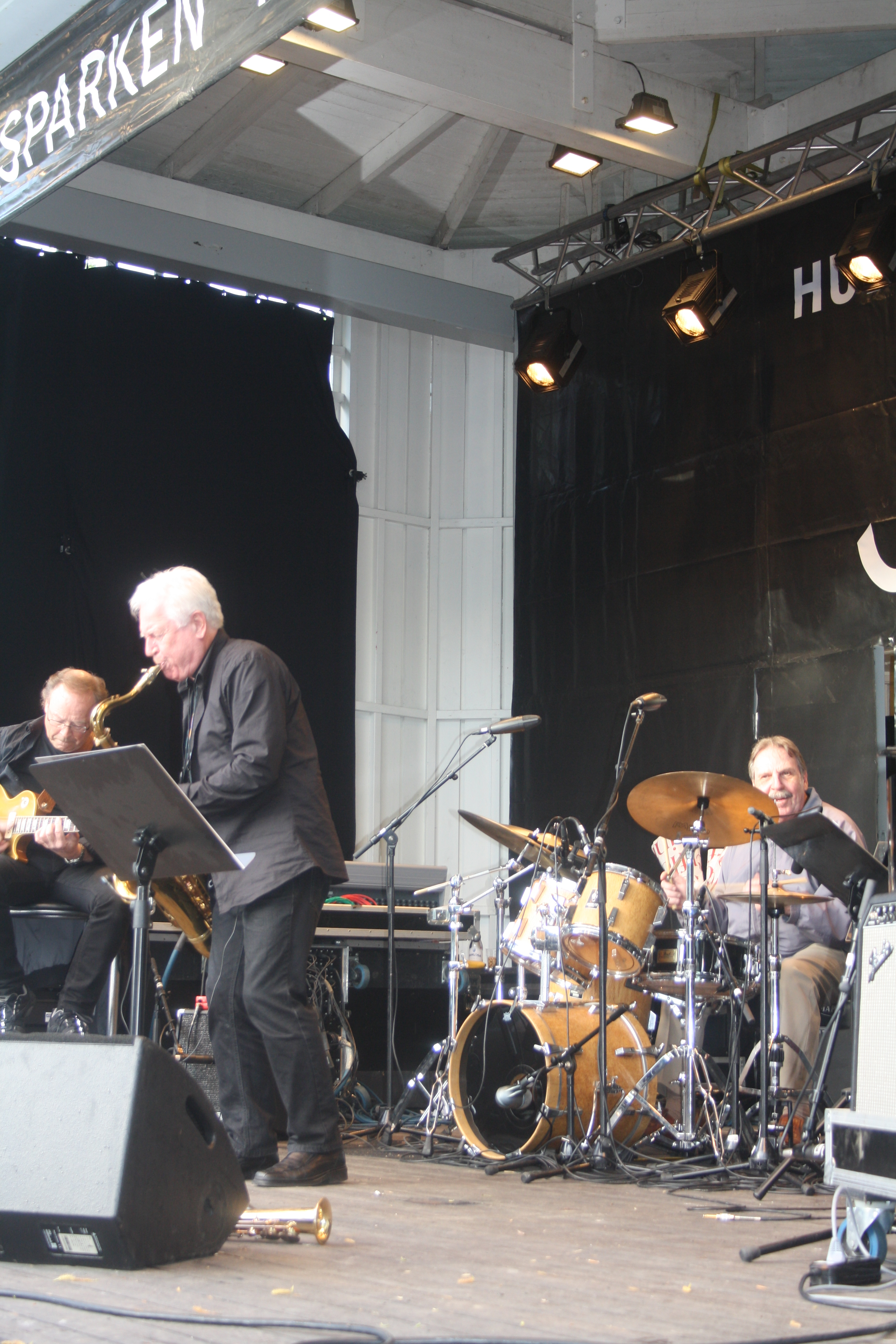 Janne "Loffe" Carlsson med vänner